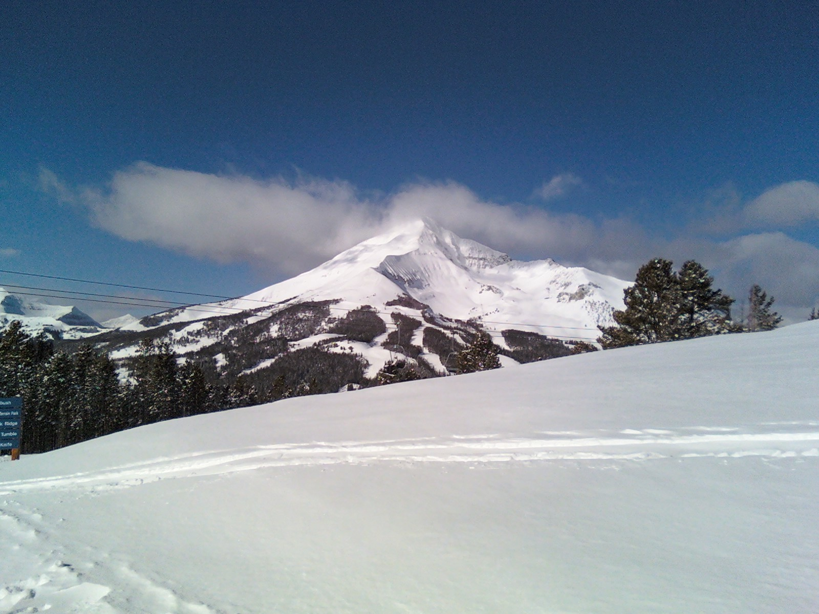 A picture of Lone Peak Montana, the principal mountain of the Big Sky ski resort in Montana, USA. The picture was taken from a smaller mountain opposite Lone Peak with a 2 megapixel Motorola Cell Phone Camera